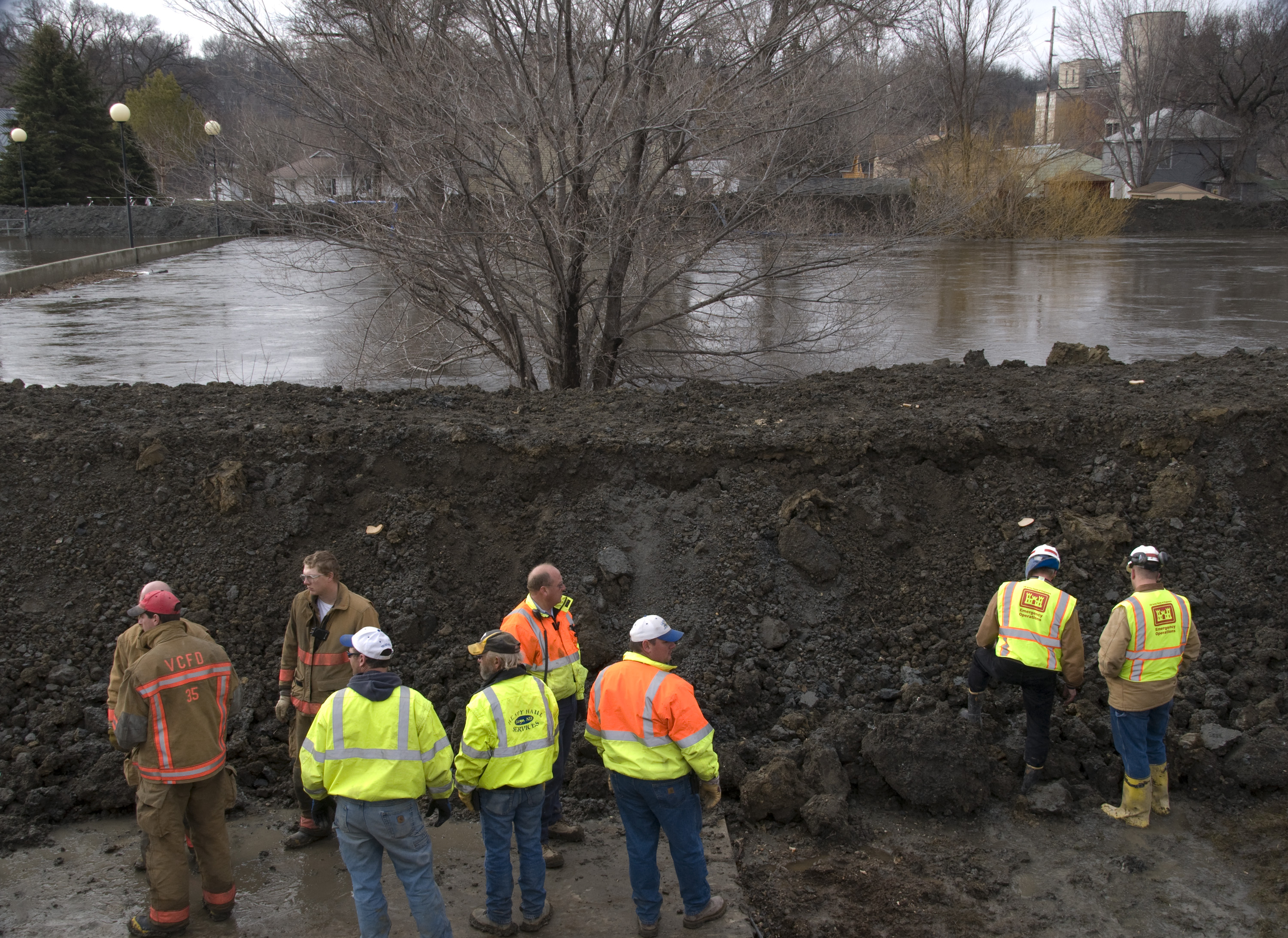 Valley City, ND, April 13, 2009 -- Members of the U.S.Army Corps of Engineers inspect the site of a levee where severe seepage threatens the integrity of the levee in downtown Valley City, ND. The Corps is working with city officials and the National Guard to ensure the safety of the levees in the town. Photo by Patsy Lynch/FEMA